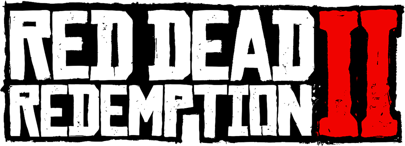 Red Dead Redemption 2 Logo